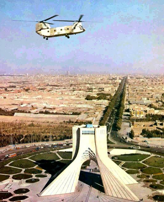 Azadi (Shahyad ) Square with Azadi (Eisenhower) Avenue in background